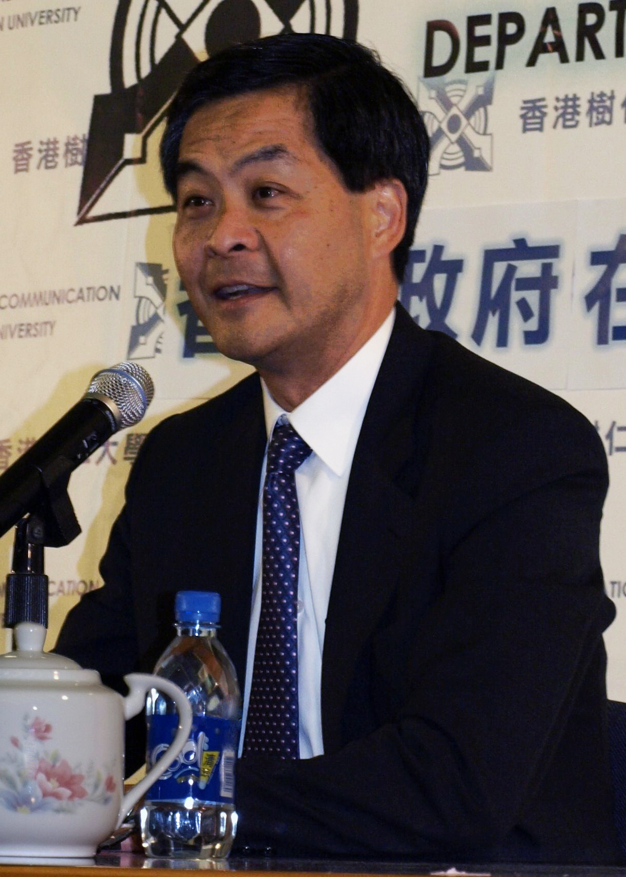 Mr Leung Chun Ying, Convenor of non-official members of the Executive Council of Hong Kong, at General Assembly of Journalism & Communication Department, Hong Kong Shue Yan University